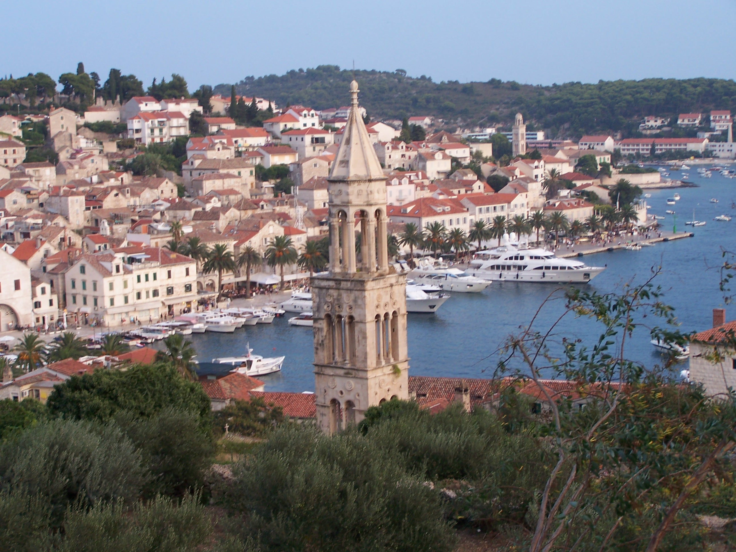 Hvar Town